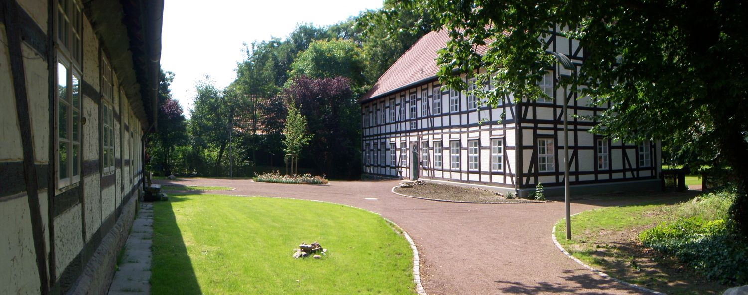 The 'Vorwerk', a huge farm, in the town of Syke, Lower Saxony, Germany. The photo shows on the left the brewery building (1736) and the officer living building (1728).